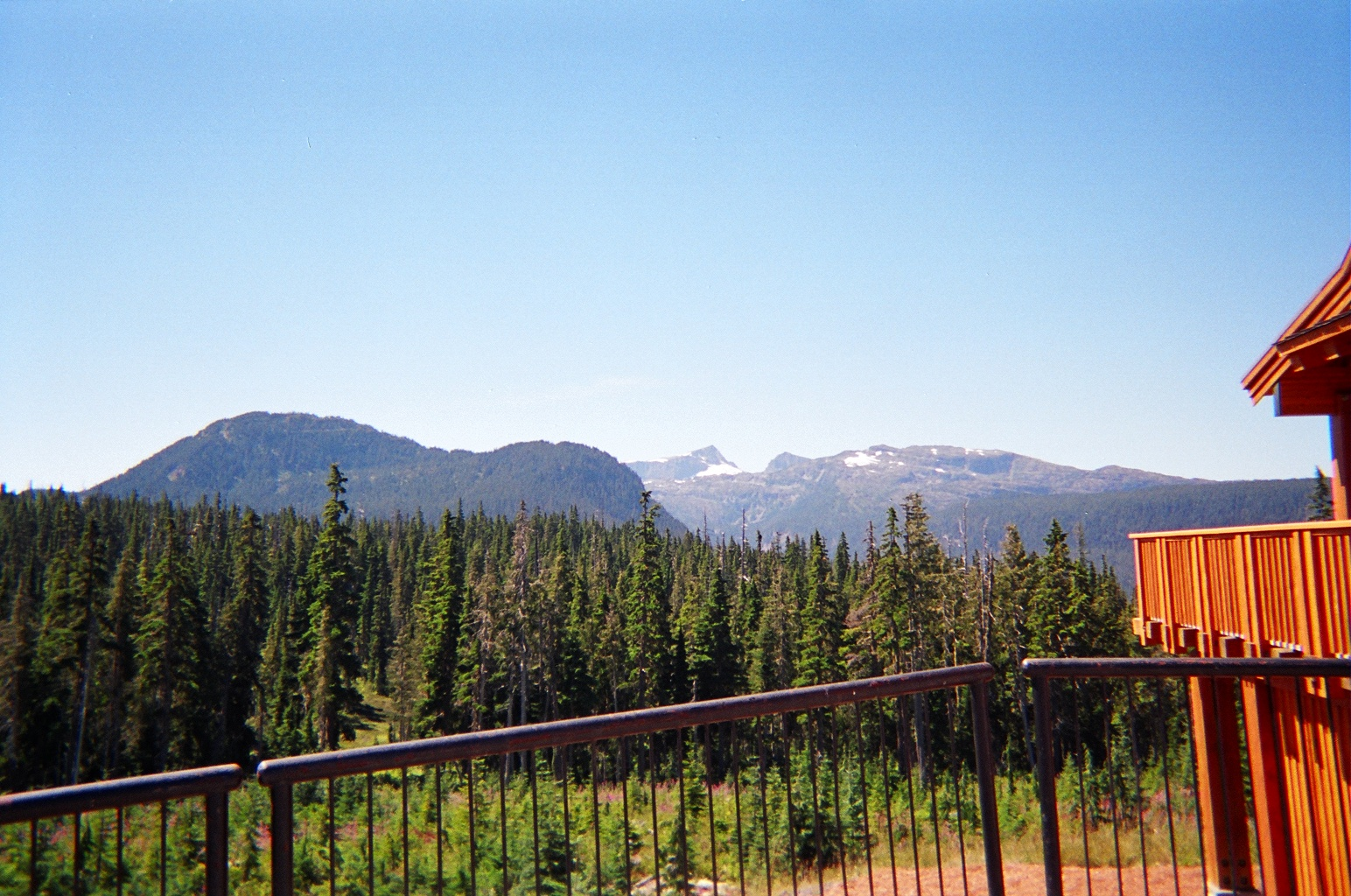 Looking Southeast from the Mount Washington Nordic Ski Lodge, Vancouver Island, British Columbia, Canada